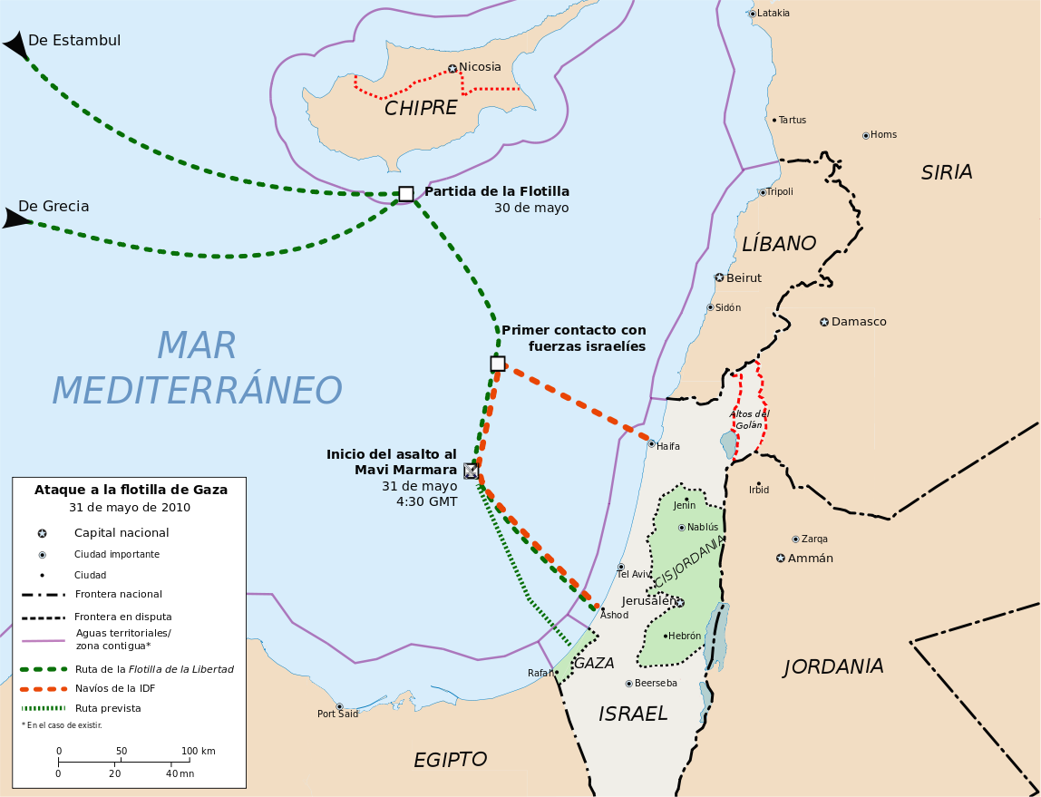 Freedom Flotilla incident. 31 may 2010. Cartographic base from Open Street Maps (heavily modified) Flotilla route points from (under CC by-sa)